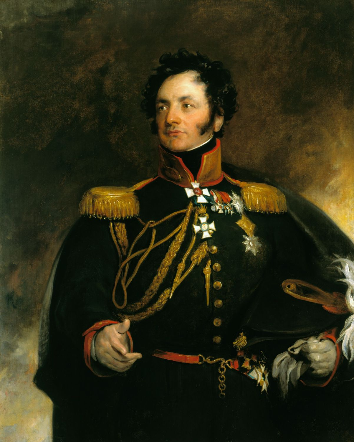 This portrait was commissioned by George IV at a cost of 300 guineas and was painted in 1818 at the Congress of Vienna, though it remained in Lawrence's studio until his death. The portrait seems to have always been intended for what became the 'Waterloo Chamber' and acknowledges the sitter’s role as a distinguished Cavalry General during the French retreat from Moscow and the Tzar’s Aide-de-Camp in Vienna. In this portrait he is shown in military uniform with his plumed hat on his arm, wearing three stars, including the orders of St George of Russia and St Alexander Newski. The Waterloo Chamber is a great hall on the public route at Windsor Castle displaying portraits of those soldiers, sovereigns and diplomats responsible for the overthrow of Napoleon and the re-establishment of the monarchies and states of Europe thereafter. The concept began in 1814 when George IV used the opportunity of the Treaty of London to commission Lawrence to paint distinguished visitors. The group of portraits grew during the next decade as Lawrence continued to obtain portrait sittings at the various congresses following the Battle of Waterloo in 1815 and, in some cases, by making special journeys. Most of the twenty eight portraits were delivered after his death on 7 January 1830. By this time work was already begun of the space of the Waterloo Chamber created by covering a courtyard at Windsor Castle with a huge sky-lit vault; the room was completed during the reign of William IV (1830-7). The first illustration of the interior is provided by Joseph Nash (1809-78) in 1844 (RCIN 919785) and shows the arrangement which survives to this day: full-length portraits of warriors hang high, over the two end balconies and around the walls; at ground level full-length portraits of monarchs alternate with half-lengths of diplomats and statesmen.